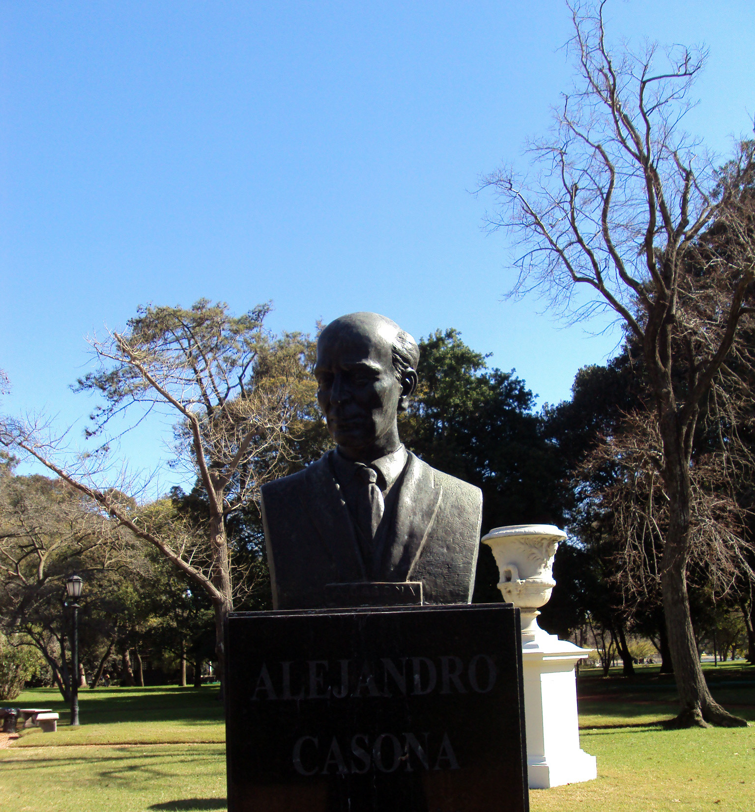 Monumento en homenaje a Alejandro Casona, dramaturgo español. Jardines de El Rosedal, Palermo, Buenos Aires, Argentina.